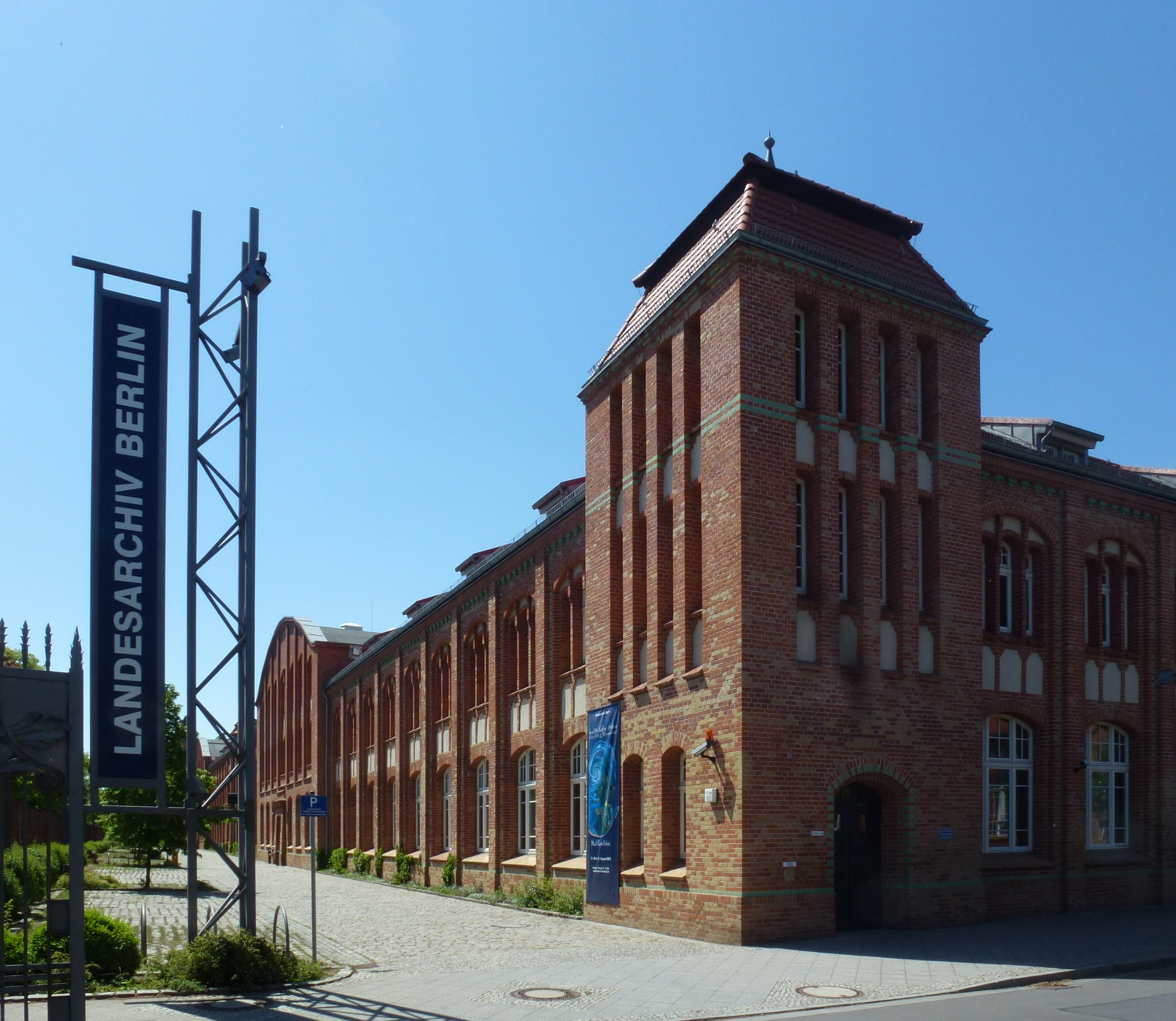 Berlin-Borsigwalde Eichborndamm Landesarchiv Berlin